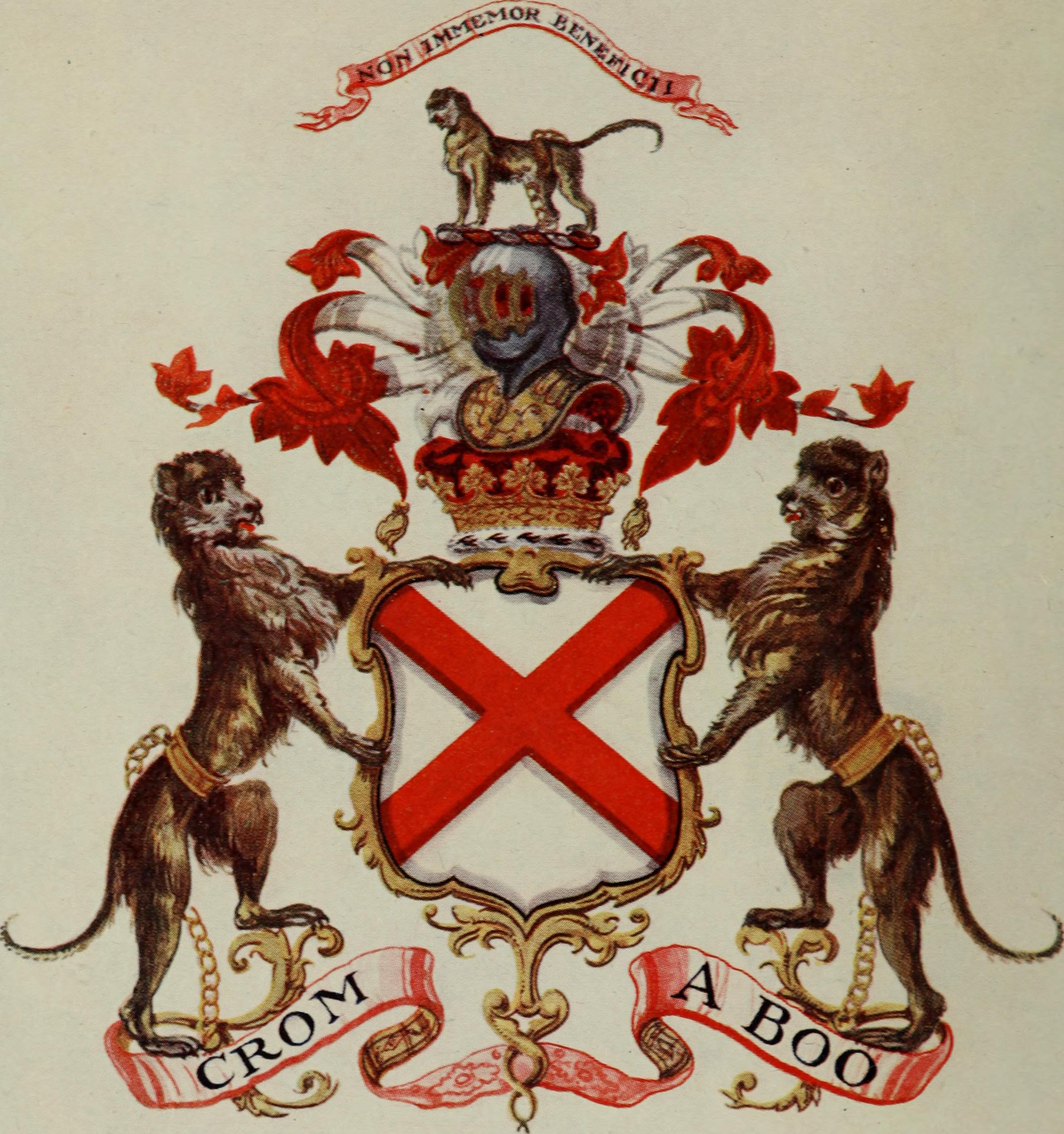 Coat_of_arms_of_the_Duke_of_Leinster